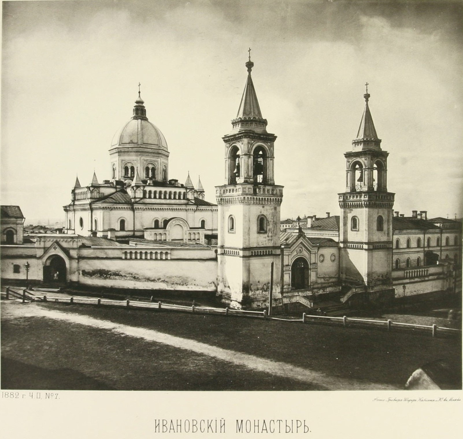 Ivanovsky Convent in Moscow. Main cathedral by Konstantin Bykovsky